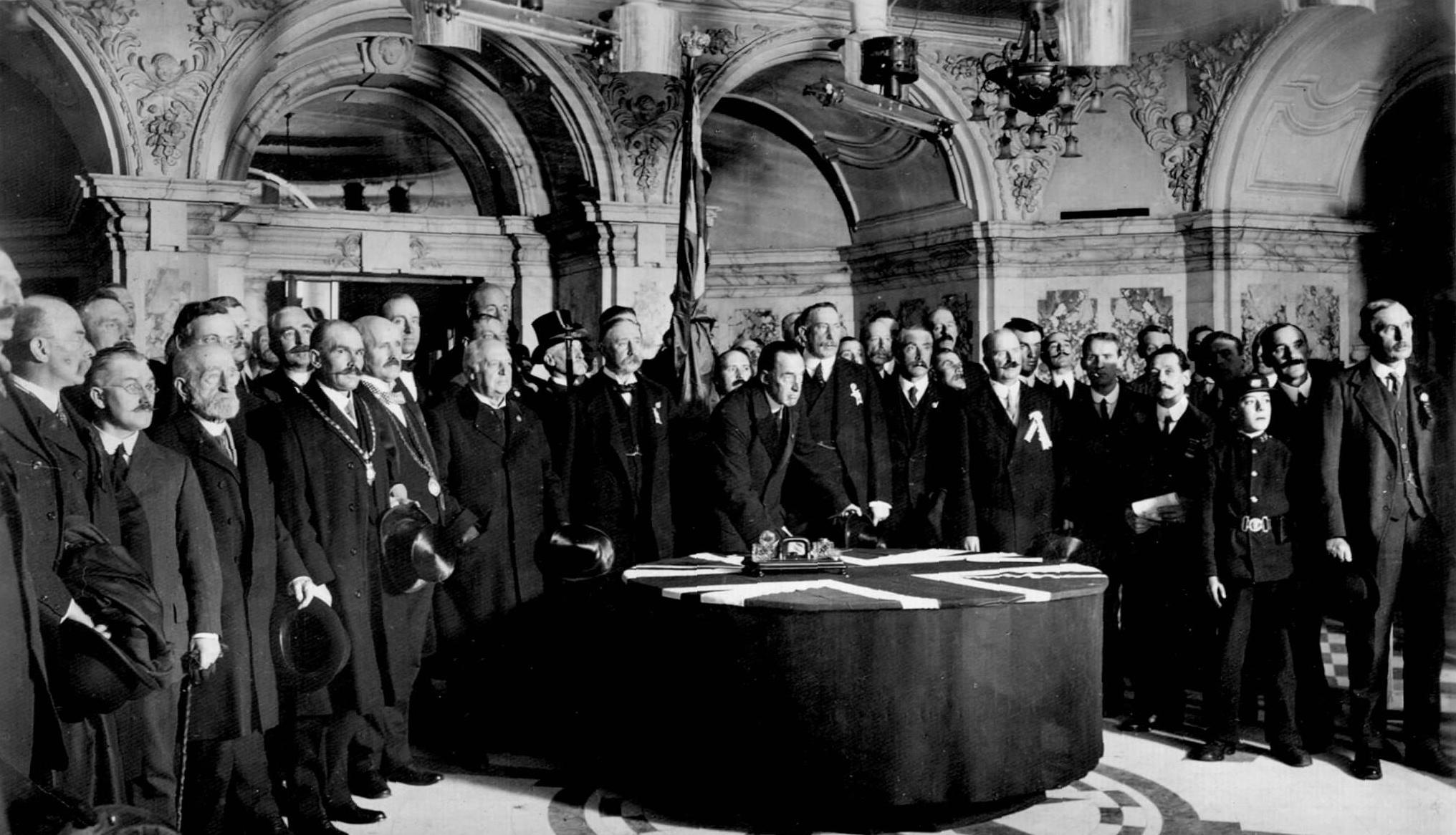 Sir Edward Carson signing the Ulster Solemn Covenant in Belfast City Hall on Ulster Day, 28th September 1912. Also seen in the postcard is James Craig and Belfast Mayor and Councillors. The table Carson is leaning on is still in Belfast City Hall.